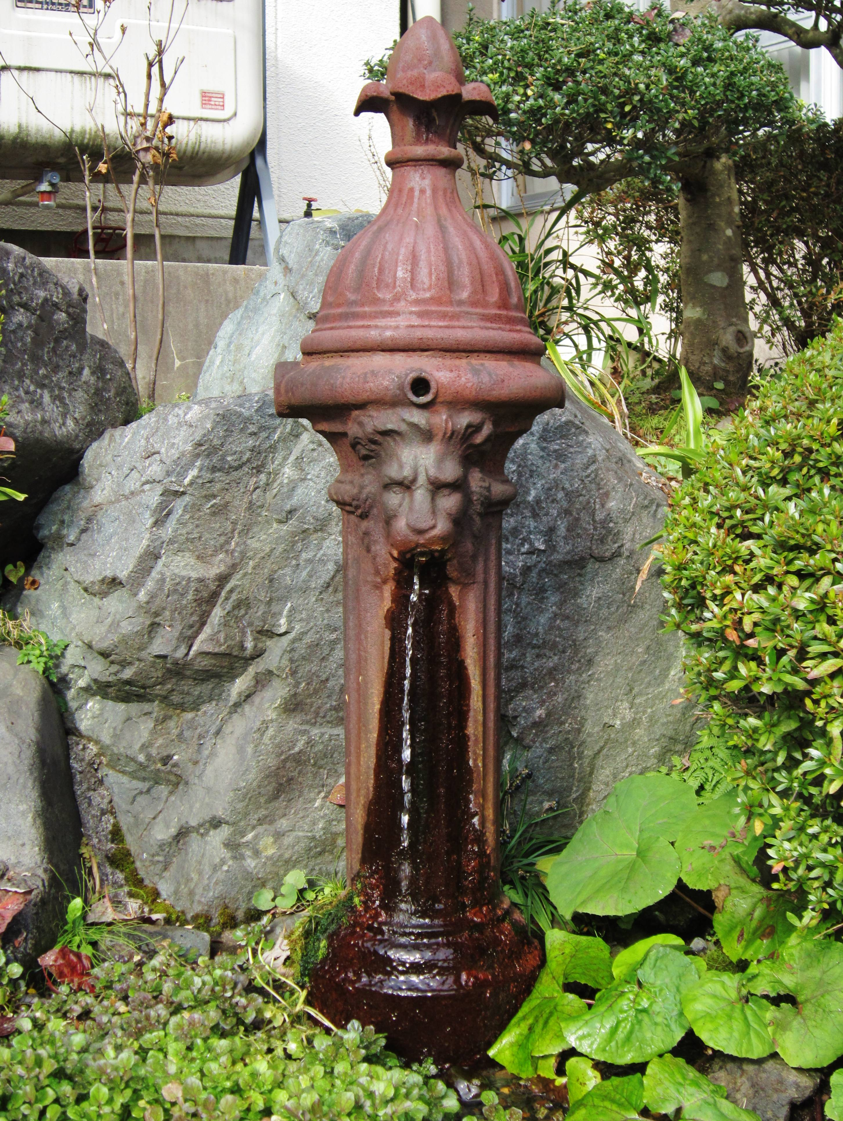 Doshi village office water supply monument.